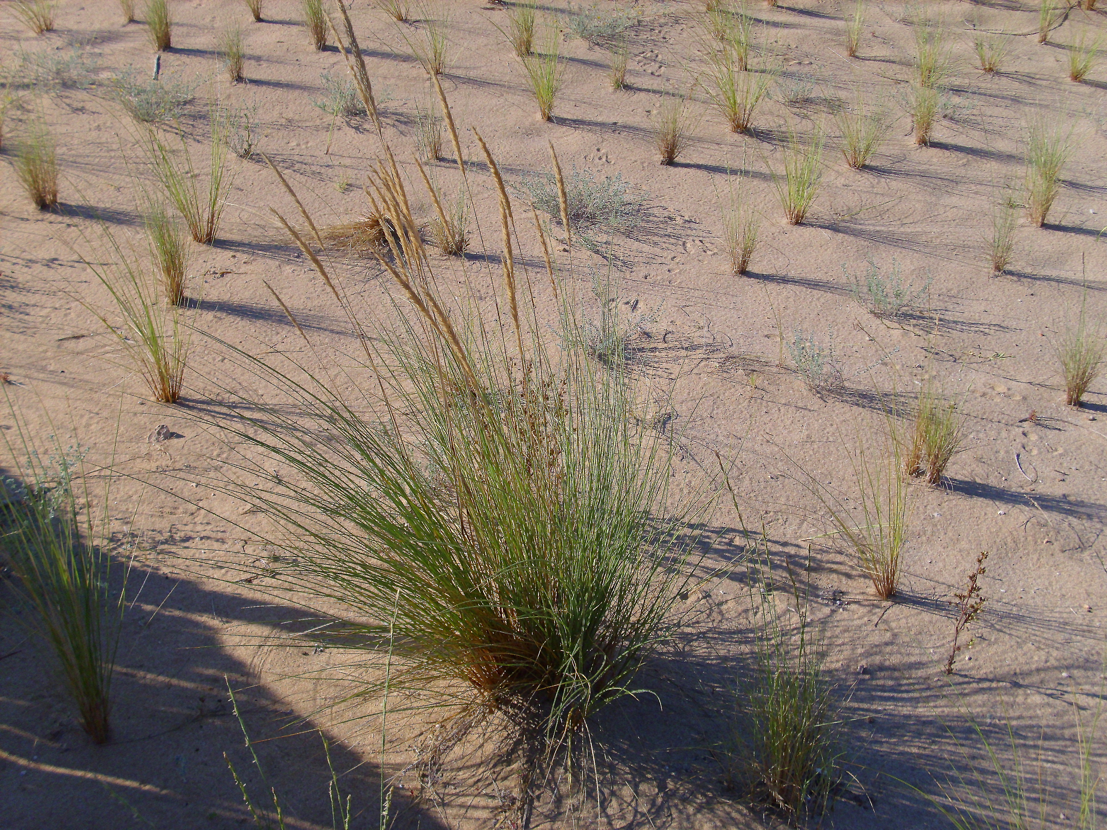 Ammophila arenaria Habitus, La Mata, Torrevieja, Alicante, Spain.